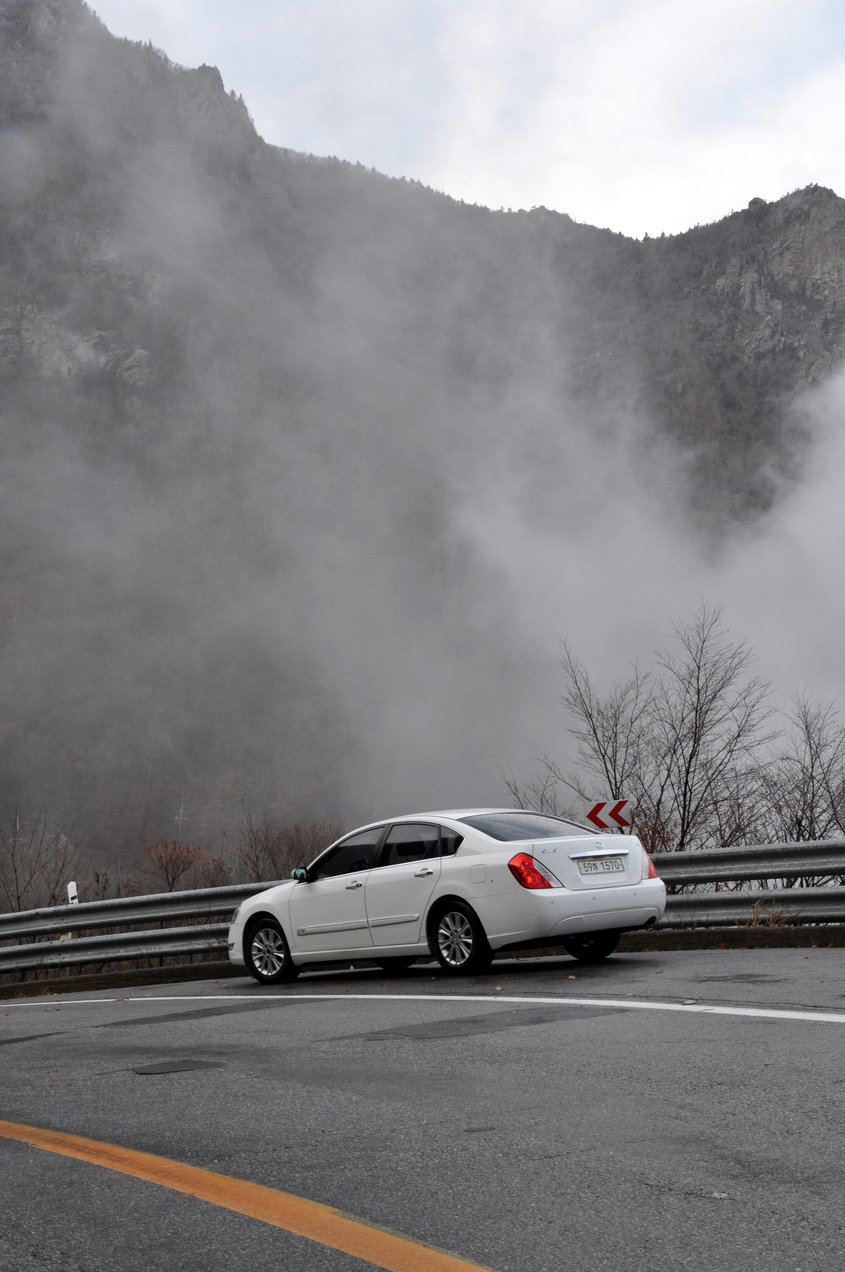 White Samsung New SM5 on Misiryeong Yetgil, near Sokcho, South Korea.